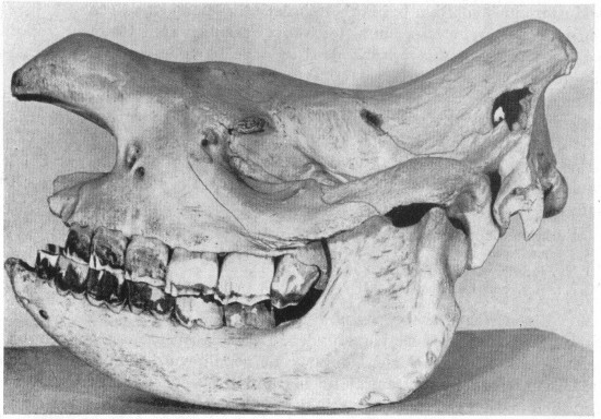 Skull of female black rhino. Holotype of Diceros bicornis longipes. The animal was shot by Adolf Friedrich zu Mecklenburg on 9 January 1911 near Mogrum in the Schari area. Museum Senckenberg, Frankfurt am Main, no. 766 (839) A 54 (4440)